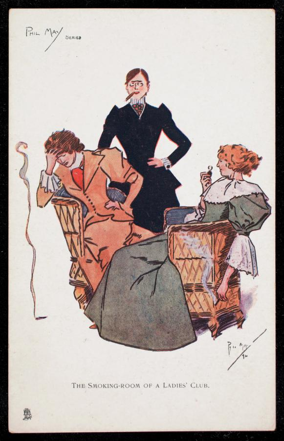 Middle-class British women smoking cigars on an Oilette postcard with art by Phil May, published by Raphael Tuck & Sons, circa 1910s. Part of the Newberry's Leonard A. Lauder collection of Raphael Tuck & Sons Oilette Postcards